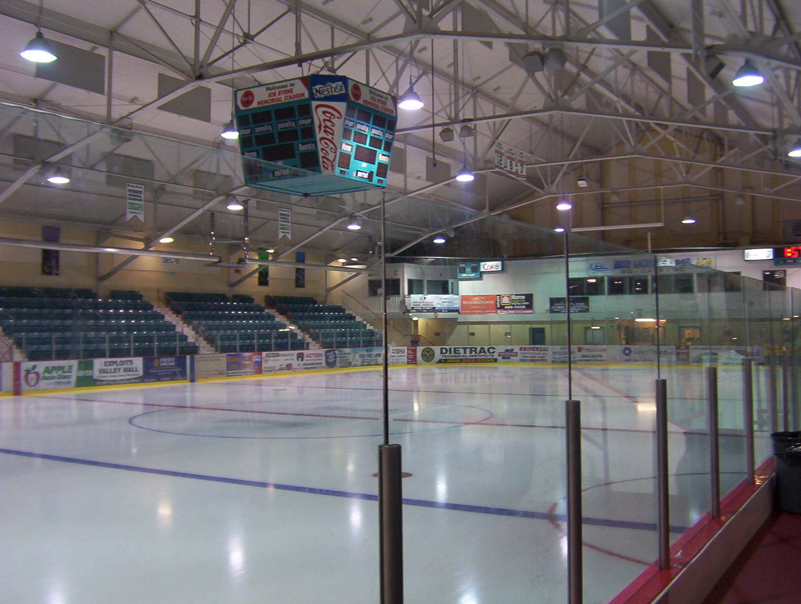 Interior of Joe Byrne Memorial Stadium in Grand Falls, Newfoundland & Labrador